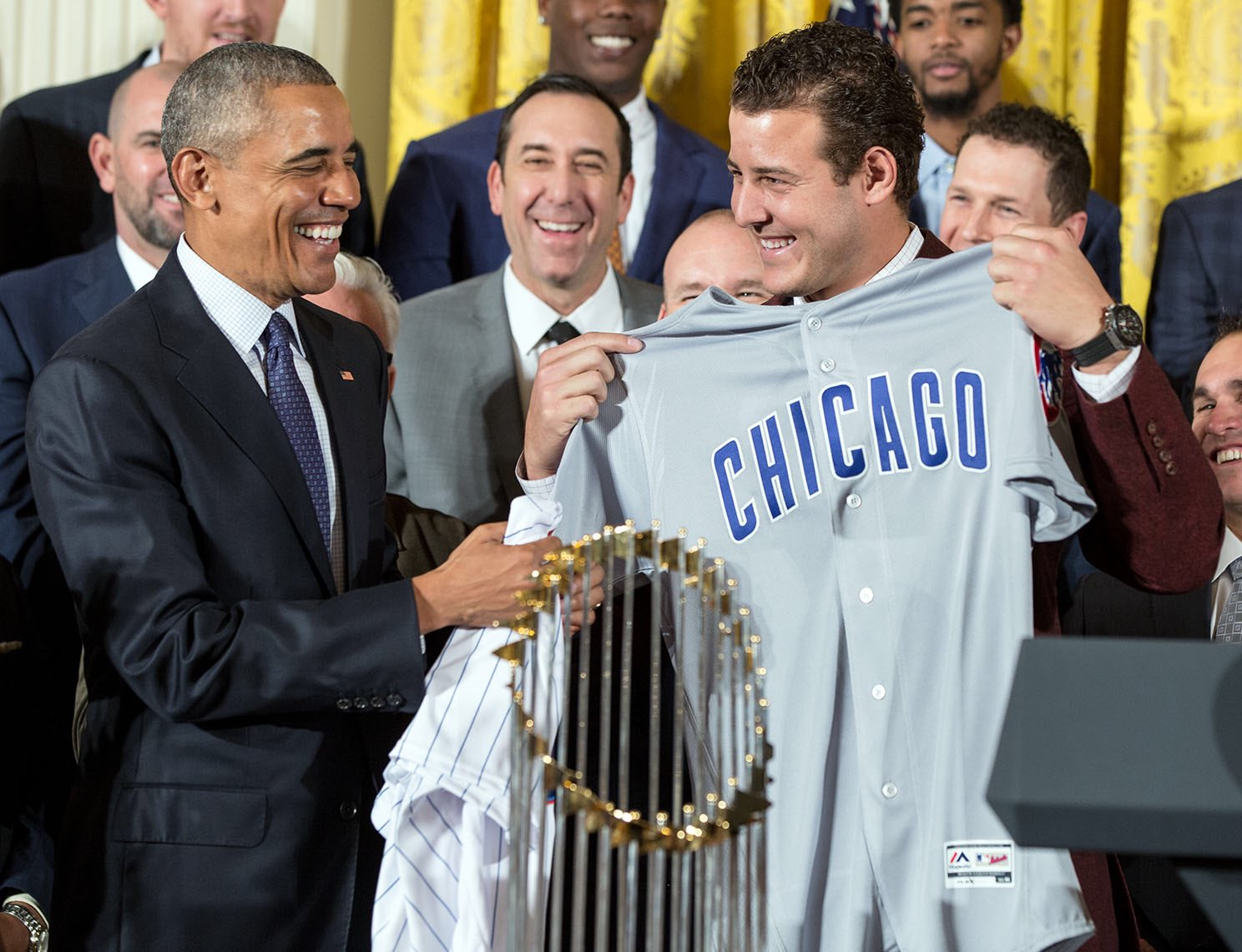 World Series Champions Chicago Cubs visit the White House